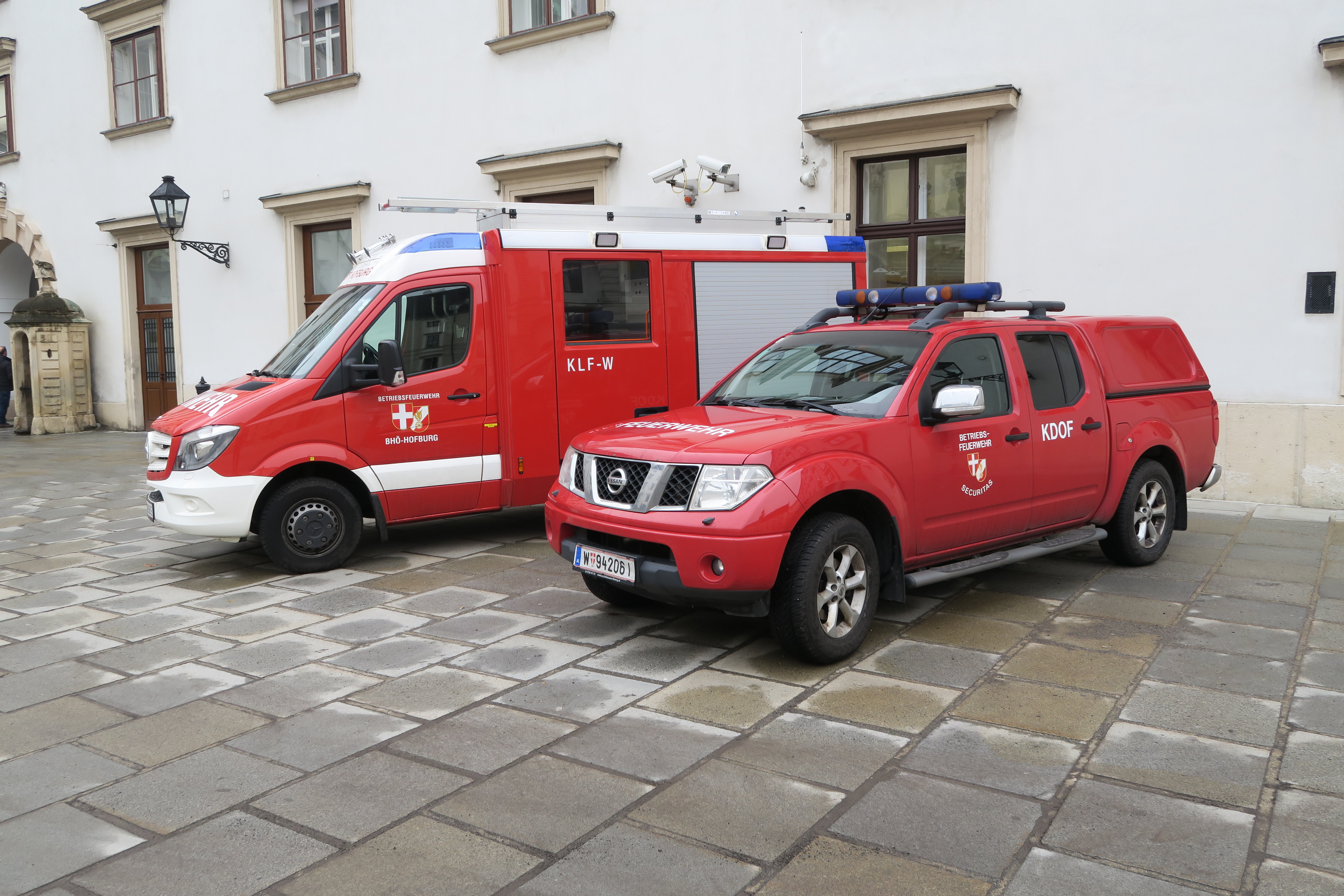 Betriebsfeuerwehr Hofburg